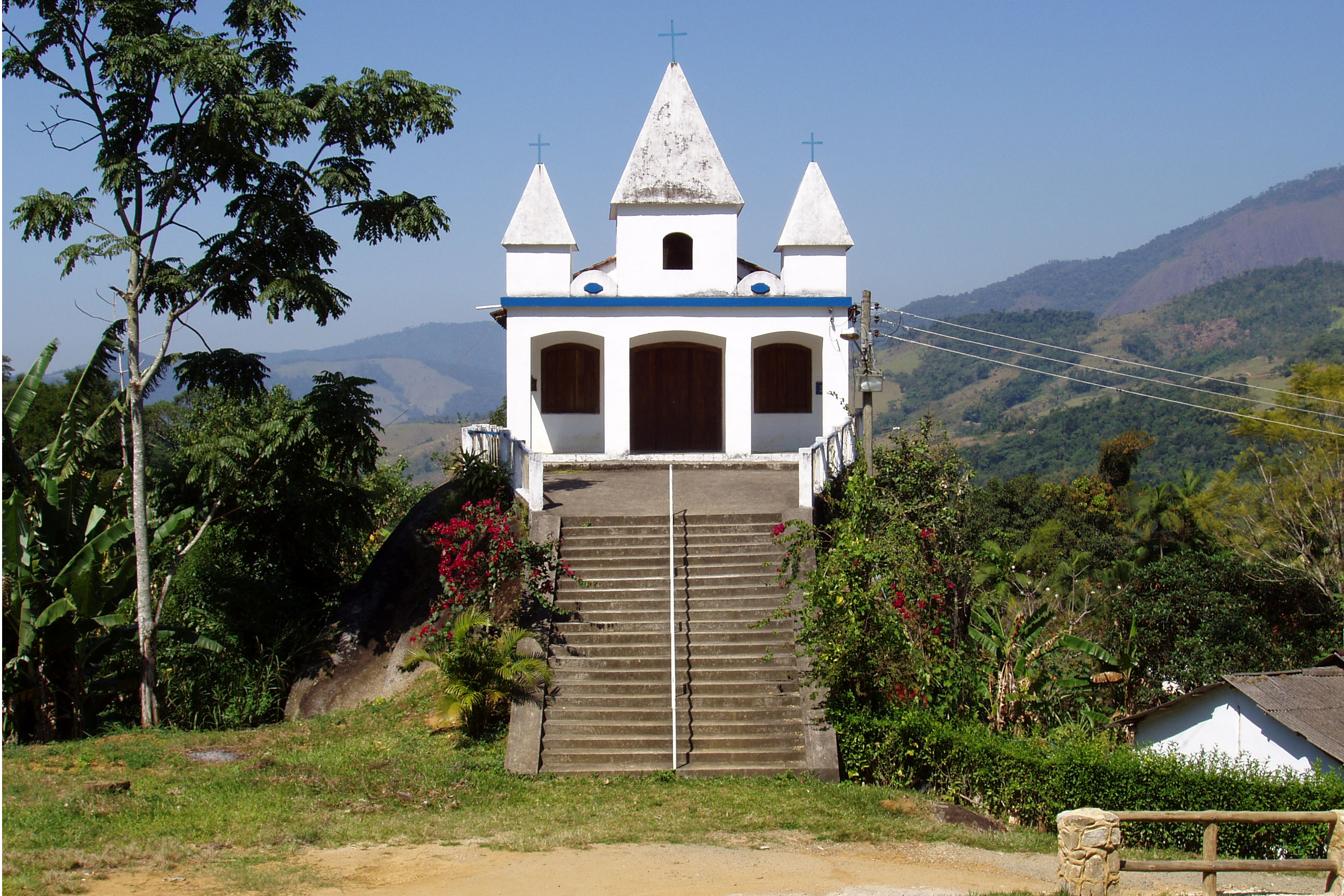 Will Canova Just across the street from this church is a wonderful old fashioned alembique, or distillery, that uses old methods of making cachaca. Well worth a visit. peter24816